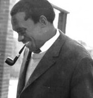 Anton Lembede first president of anc youth league (1947–1947